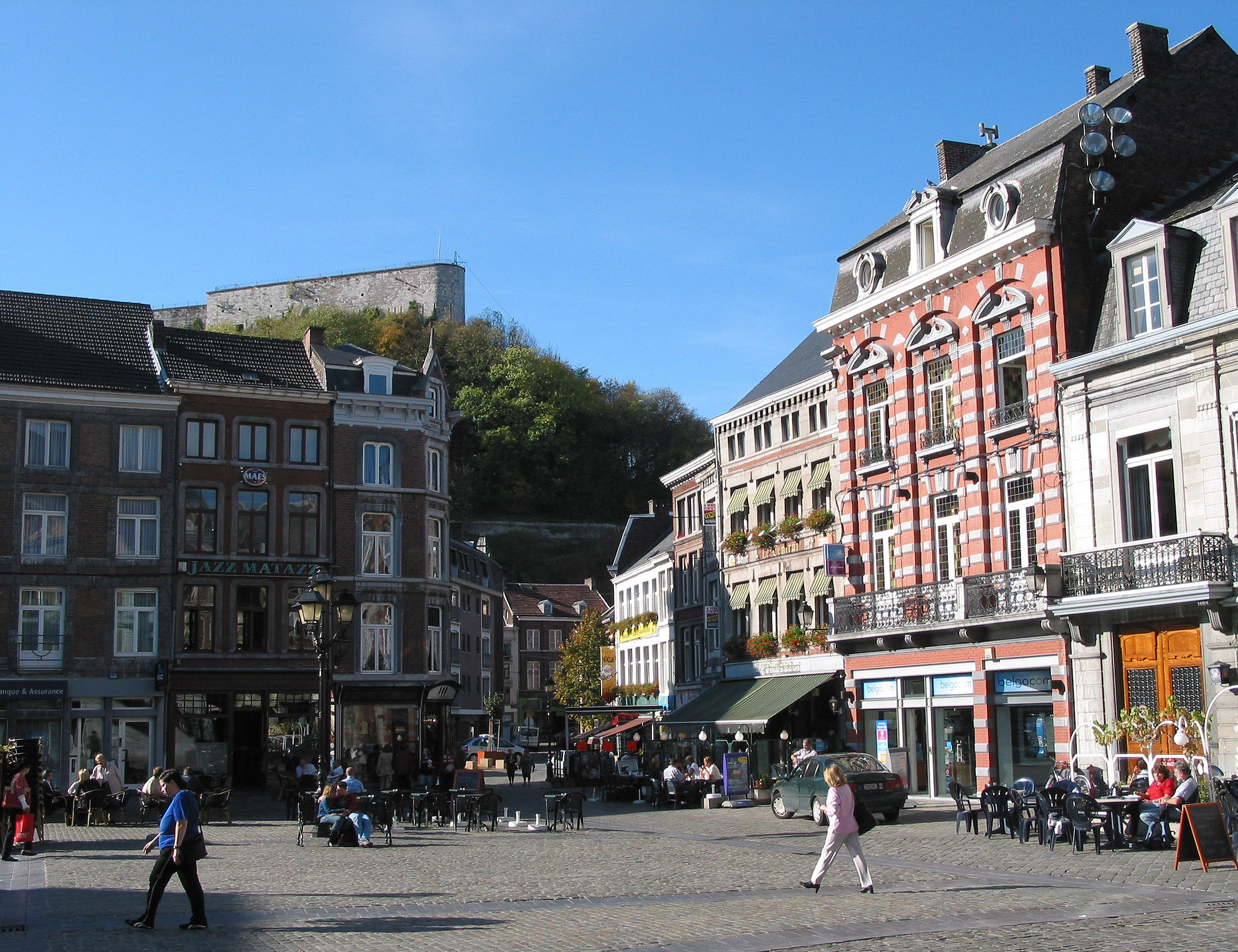 Huy (Belgium), view of the fortress (1817) from the Grand-Place.